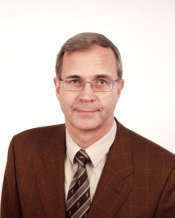 File:Bild Fuchs.jpg File:Bild Fuchs.jpg